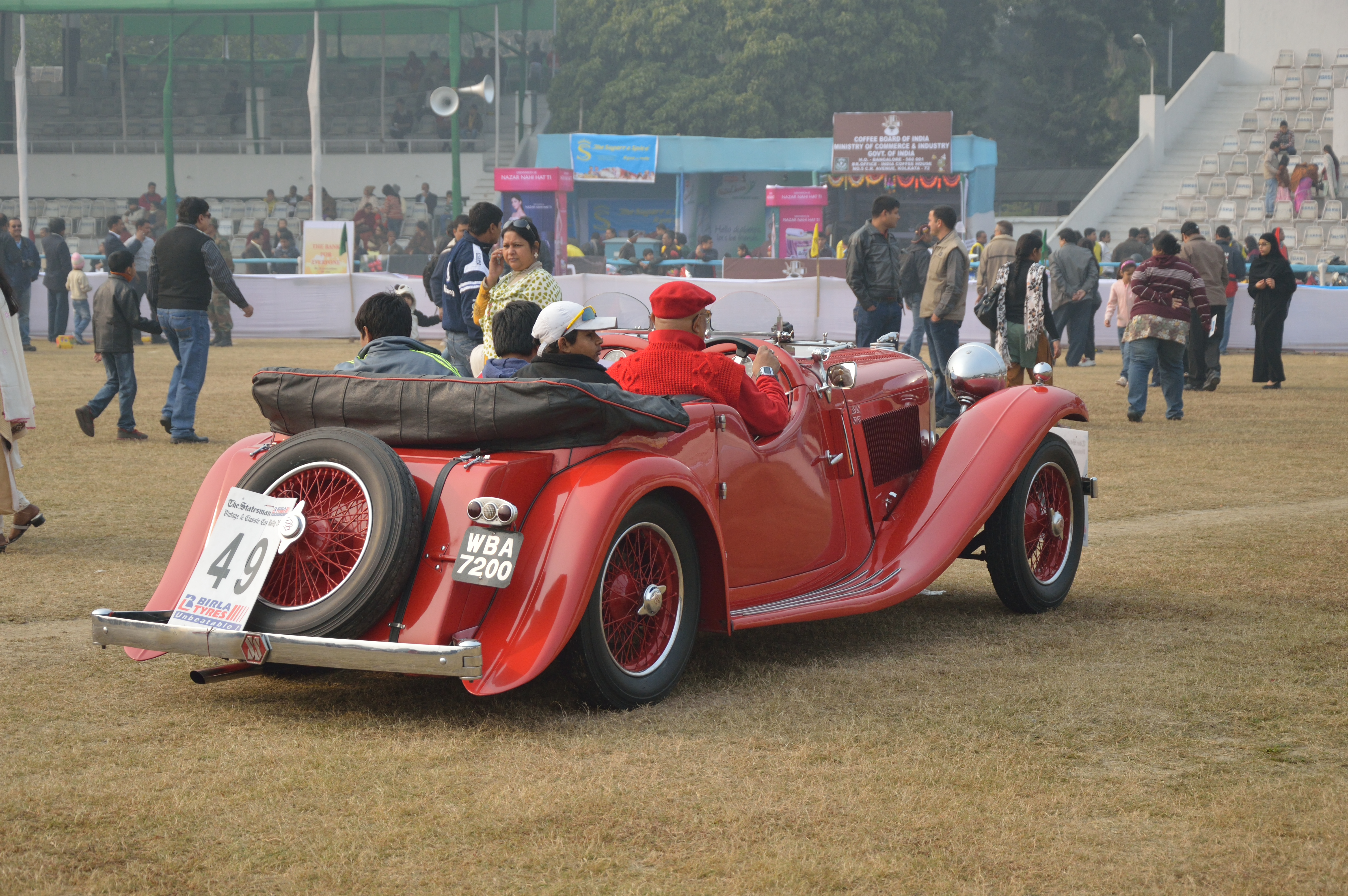 This car was exhibited and ran during ‘The Statesman Vintage & Classic Car Rally 2013’ from the Eastern Command Sports Stadium of Fort William, Kolkata to the same via: Rabindra Sadan, Esplanade, Central avenue, Bhupen Bose avenue, Shaymbazaar five points crossing, APC Roy road, AGC Bose road Park Circus seven points, Gariahat flyover, Gol park, Rabindra Sarover, SP Mukherjee road, Hazra Road, Alipore road and Strand road, the route covers 31.32 km. The rally was held at chilled morning on 13 January 2013 at the ECS Stadium, where 170 entrants were participated with cars and bikes manufactured from 1906 to 1978. This one day festival takes place on the second Sunday of every January in Kolkata since 1968 with full of period costume and cultural period pieces.